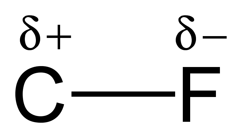 Diagram illustrating the polarity of a general carbon-fluorine bond, with a partial positive charge on carbon (δ+) and a partial negative charge of fluorine (δ−). Non-coloured version of Image:Carbon-fluorine-bond-polarity-2D.png.